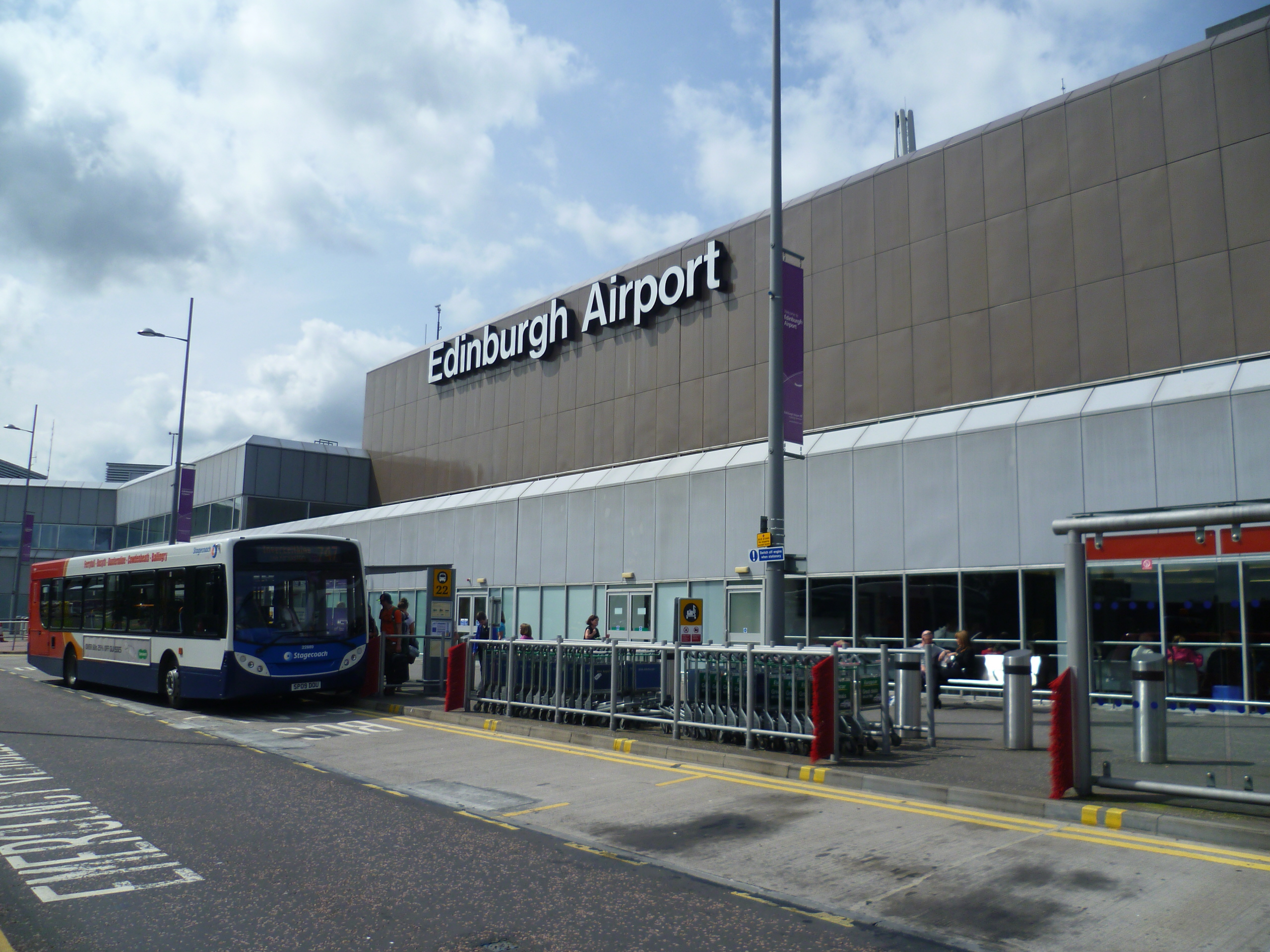 Edinburgh Airport Terminal